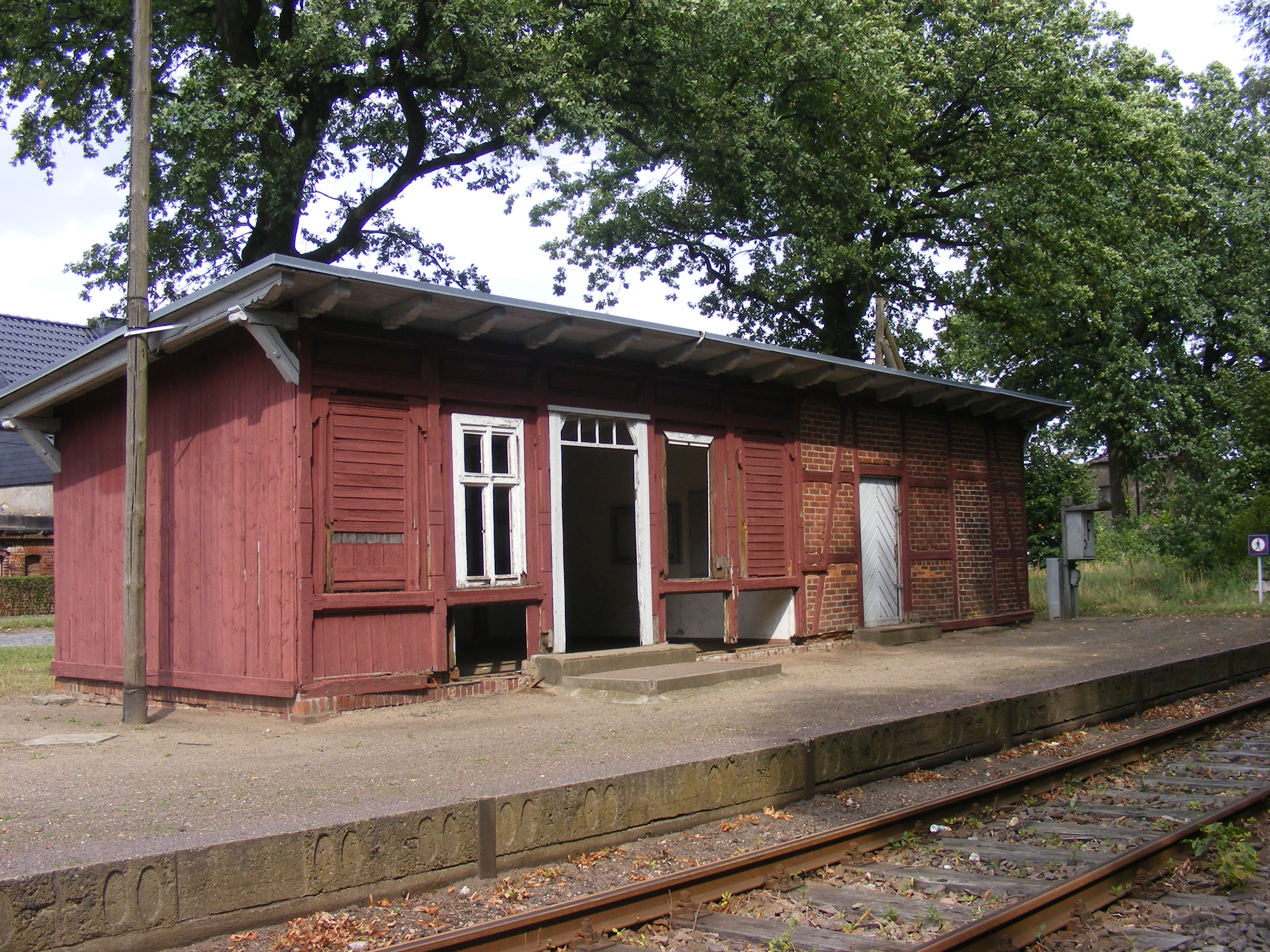 Kuhbier railway station. Close to Pritzwalk, Brandenburg, Germany.